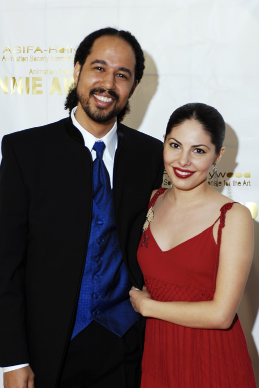 Keith Ferguson at the 2006 Annie Awards red carpet at the Alex Theatre in Glendale, California.